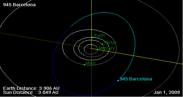 945 Barcelona orbit, and his position on 01 Jan 2009 (NASA Orbit Viewer applet)